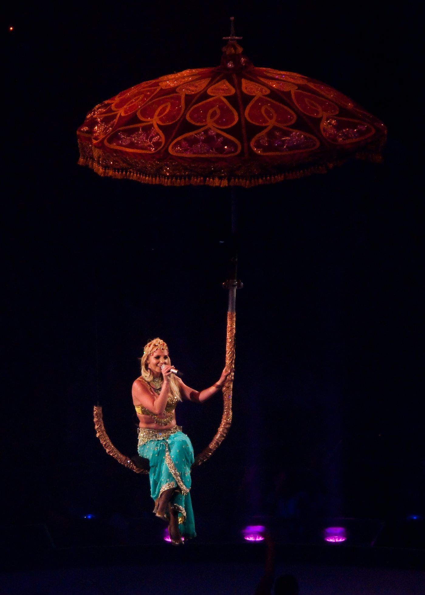 Performing Everytime